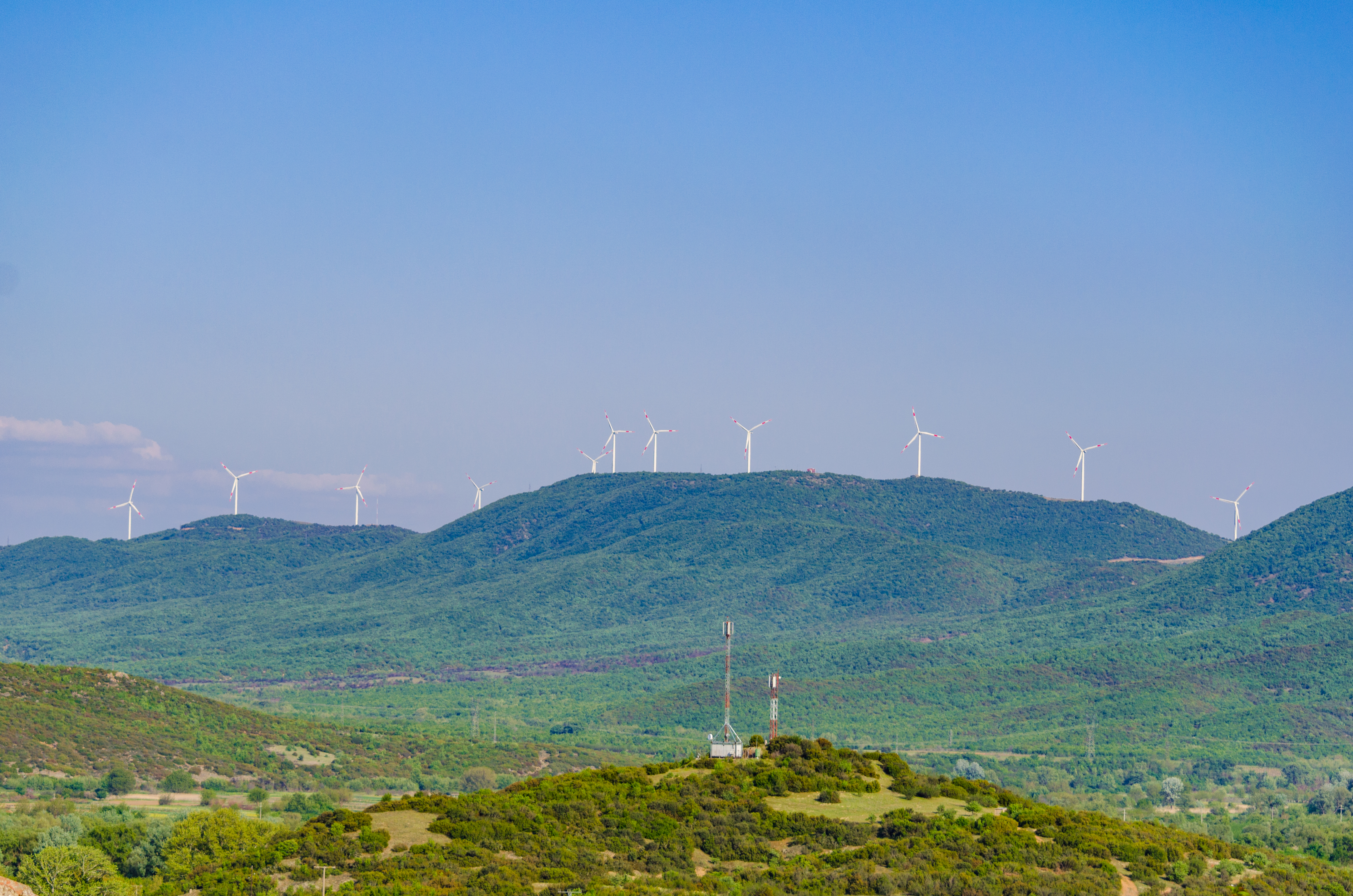 Turbines in Wind farm Bogdanci, photographed from the village Smokvica